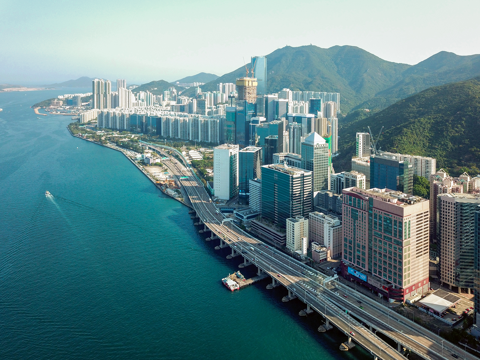 Island Eastern Corridor aerial view in North Point